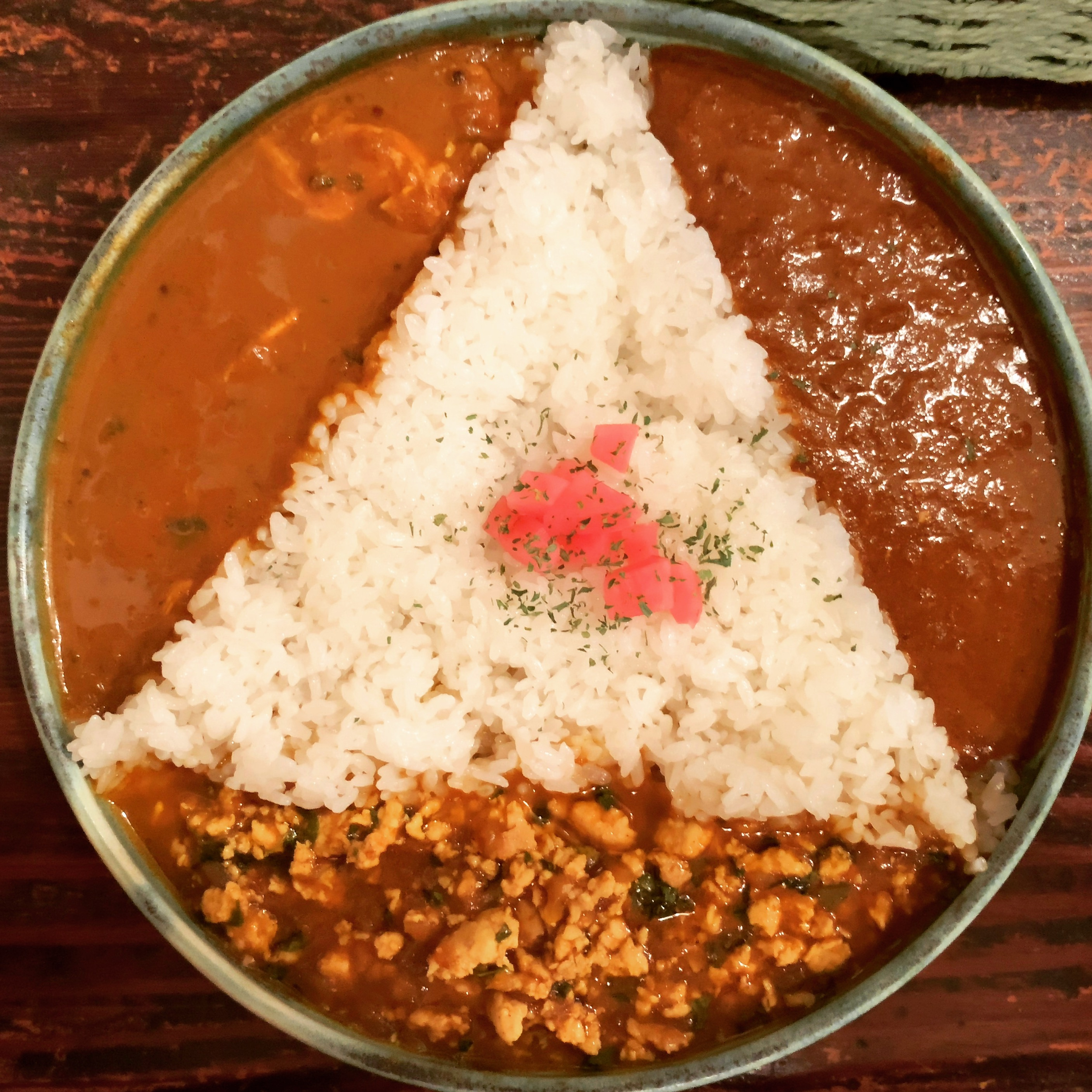 Japanese food by Naoki Nakashima